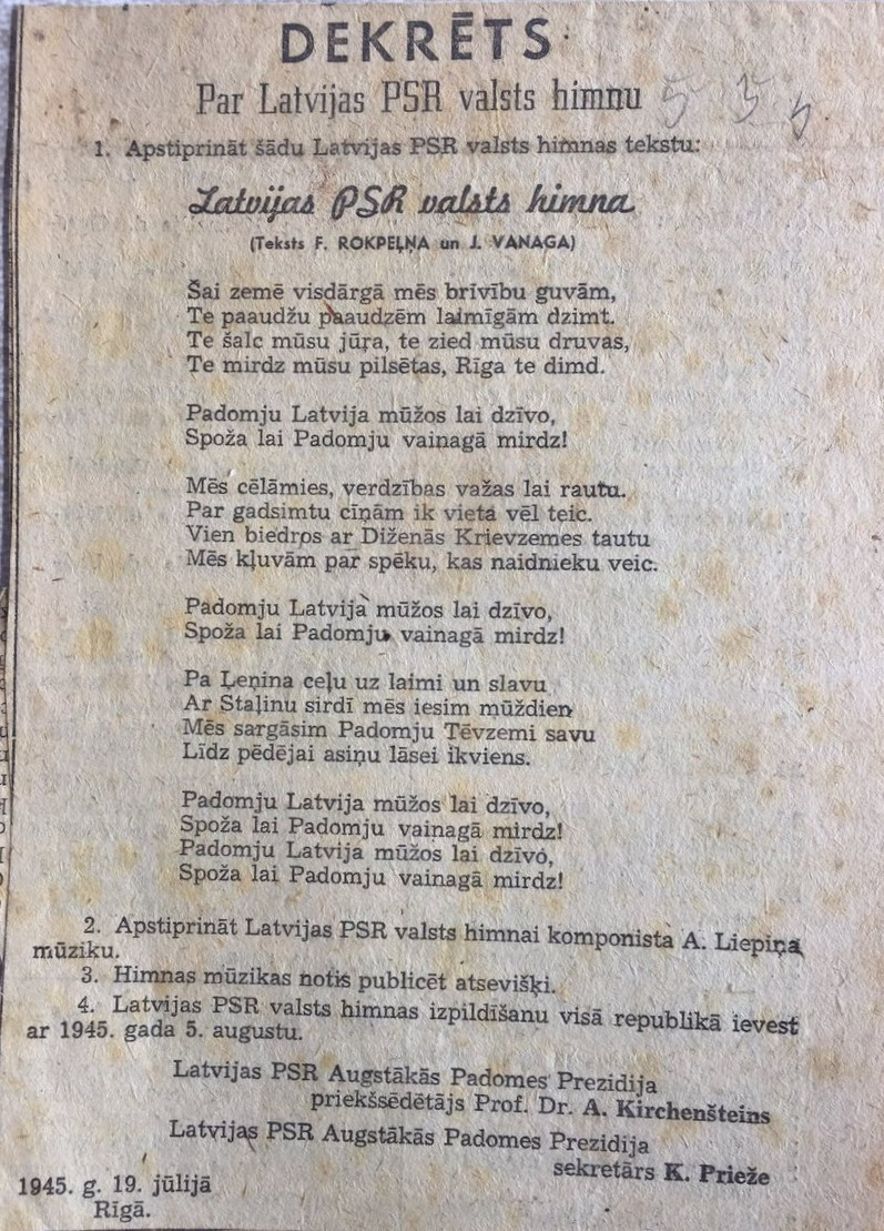 Decree on the State Anthem of the Latvian SSR, published on 19 July 1945, in effect from 5 August 1945.